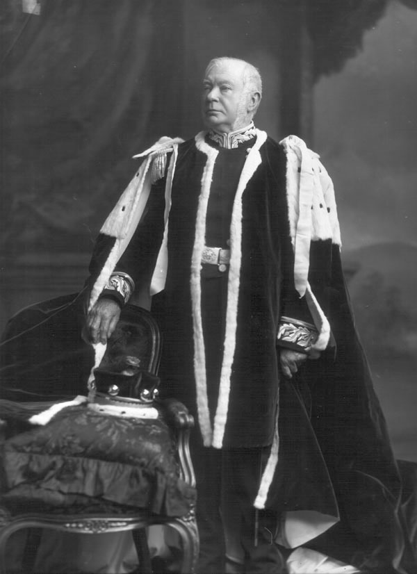 George Montagu Bennet, 7th Earl of Tankerville